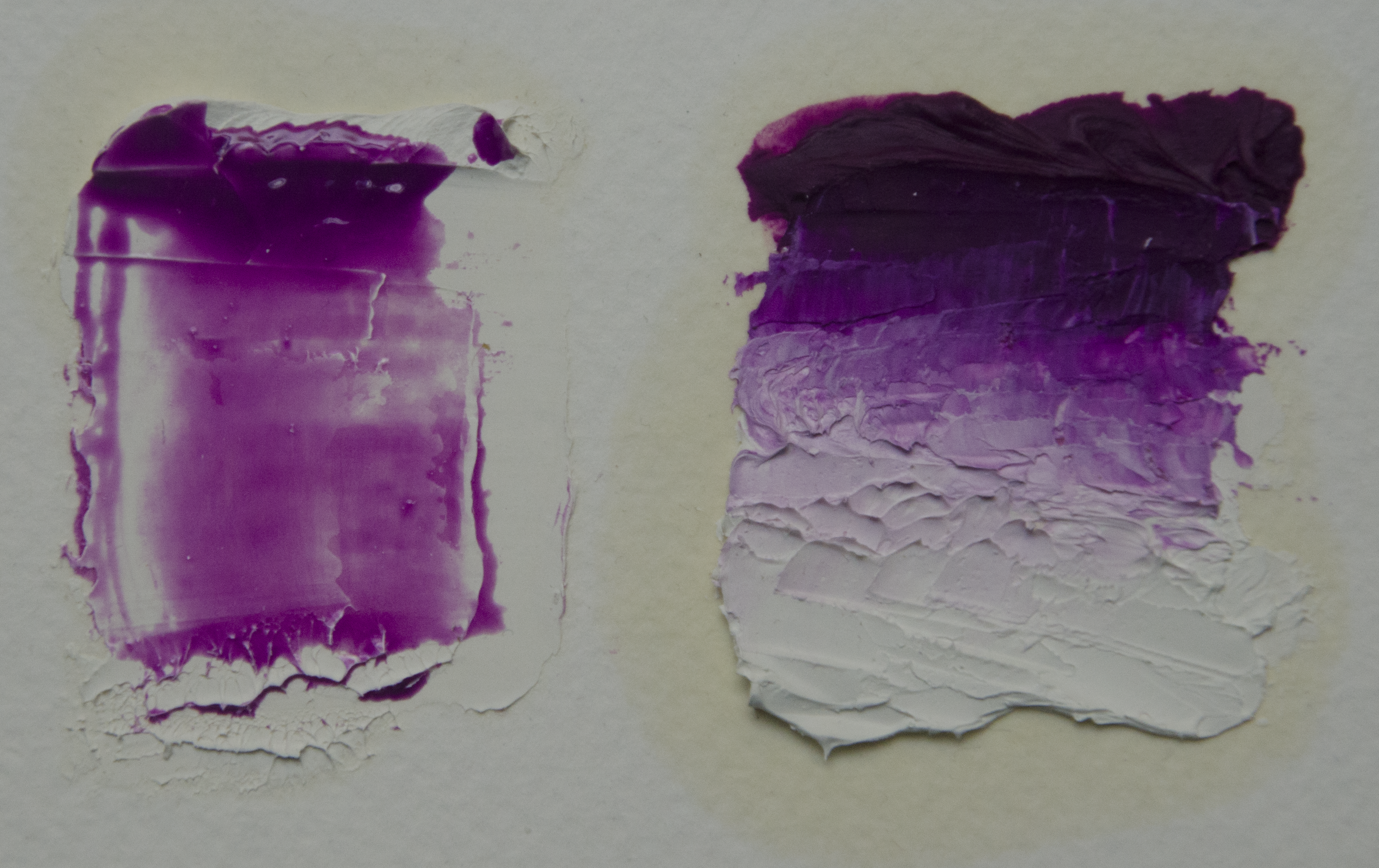 Cobalt ammonium phosphate in oil; a standoil glaze on zinc white on the left, the mass tone on the right